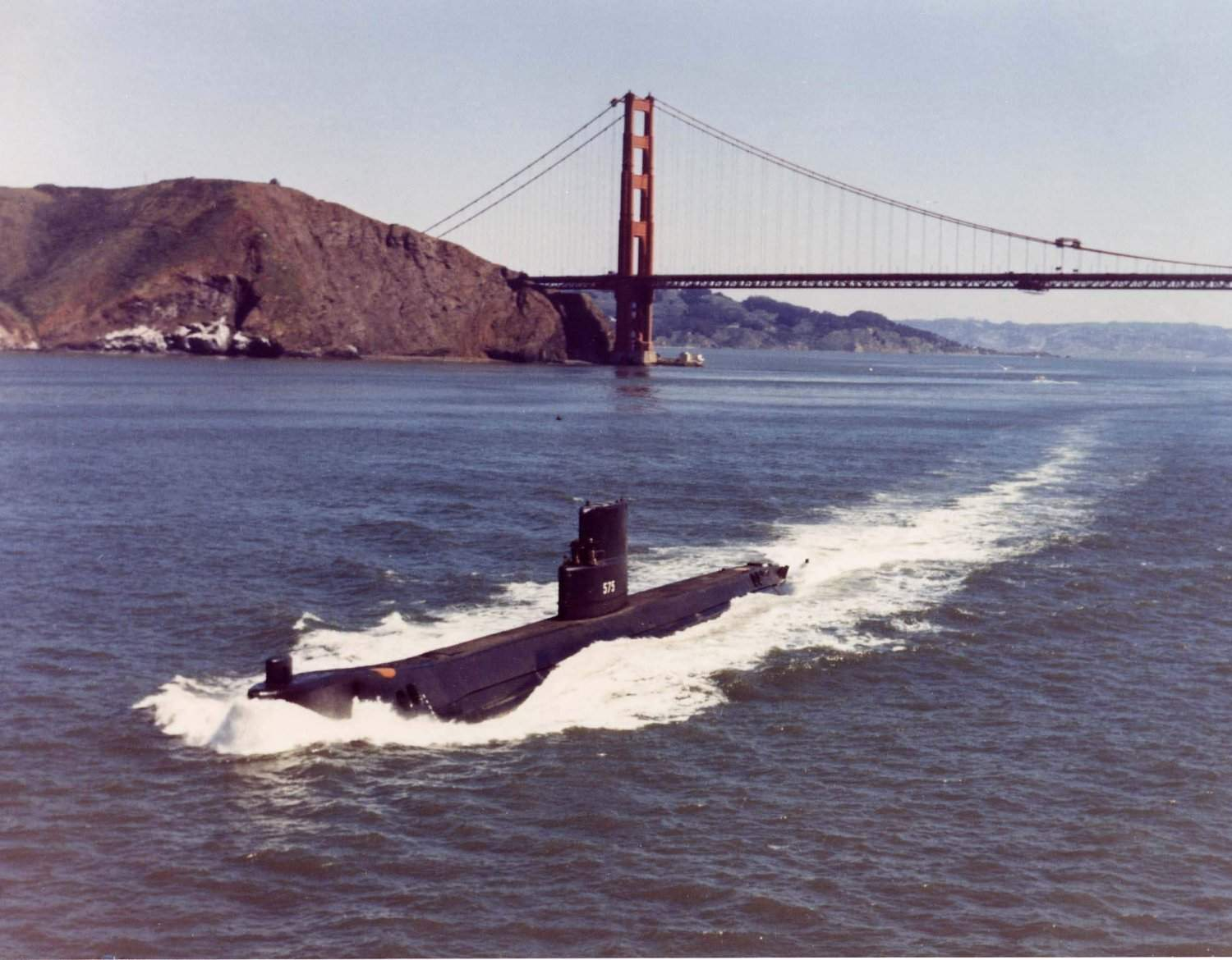 The U.S. Navy submarine USS Seawolf (SSN-575) departing San Francisco Bay in August 1977. The Golden Gate Bridge is in the background.